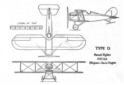 Orenco D